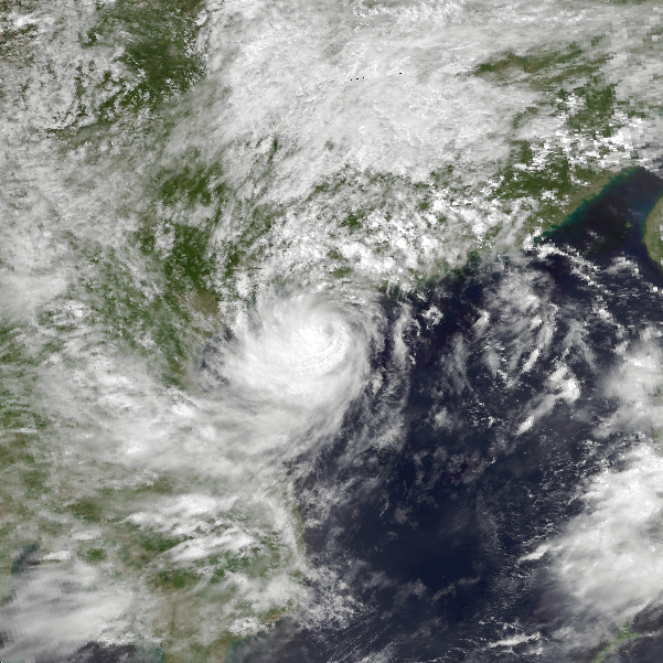 Typhoon Willie on September 20, 1996